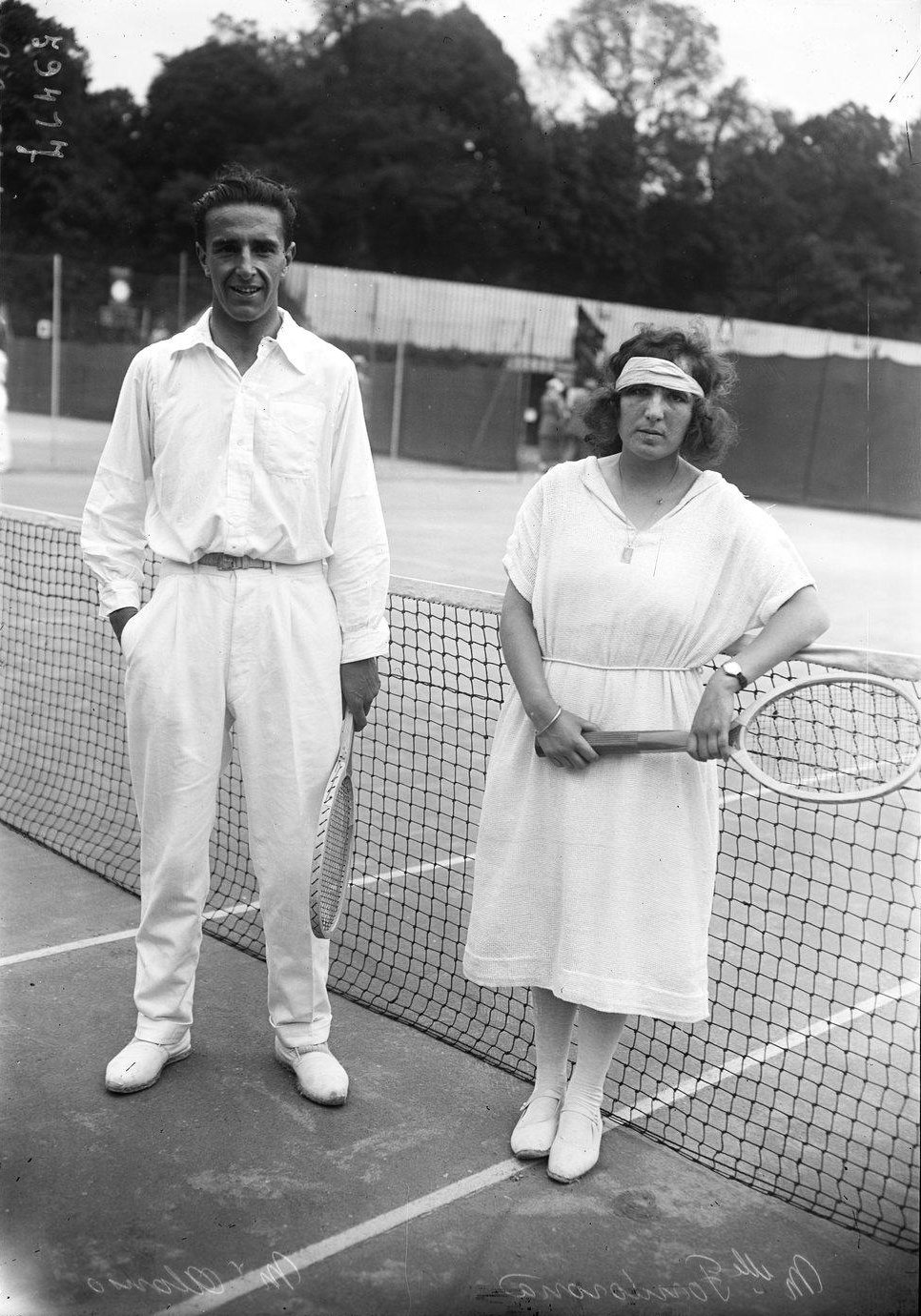 Spanish tennis players Manuel Alonso and Isabella Fonrodona, at the 1920 World Hardcourt Championships at Paris